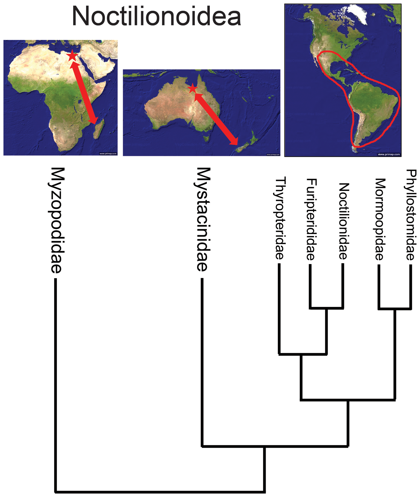 Geographic distribution of extant and fossil bats of the families Myzopodidae and Mystacinidae and extant Neotropical noctilionoid bats, along with the phylogeny of Noctilionoidea inferred from nuclear DNA sequence data. Red stars indicate location of fossil myzopodid localities (North Africa) and mystacinid localities (northern Australia) and red arrows indicate where these families are found today (myzopodids only in Madagascar and mystacinids only in New Zealand). Extant Neotropical noctilionoids are restricted (red ellipse) to South and Central America, southern North America and the Caribbean.